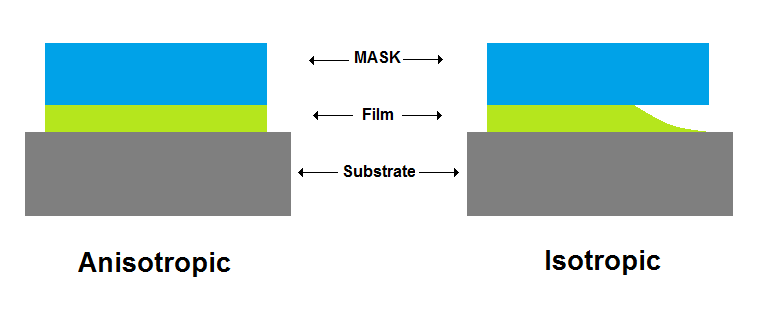 This file is representing a side view of a wafers exposed to Anisotropic etching processes and Isotropic etching processes.